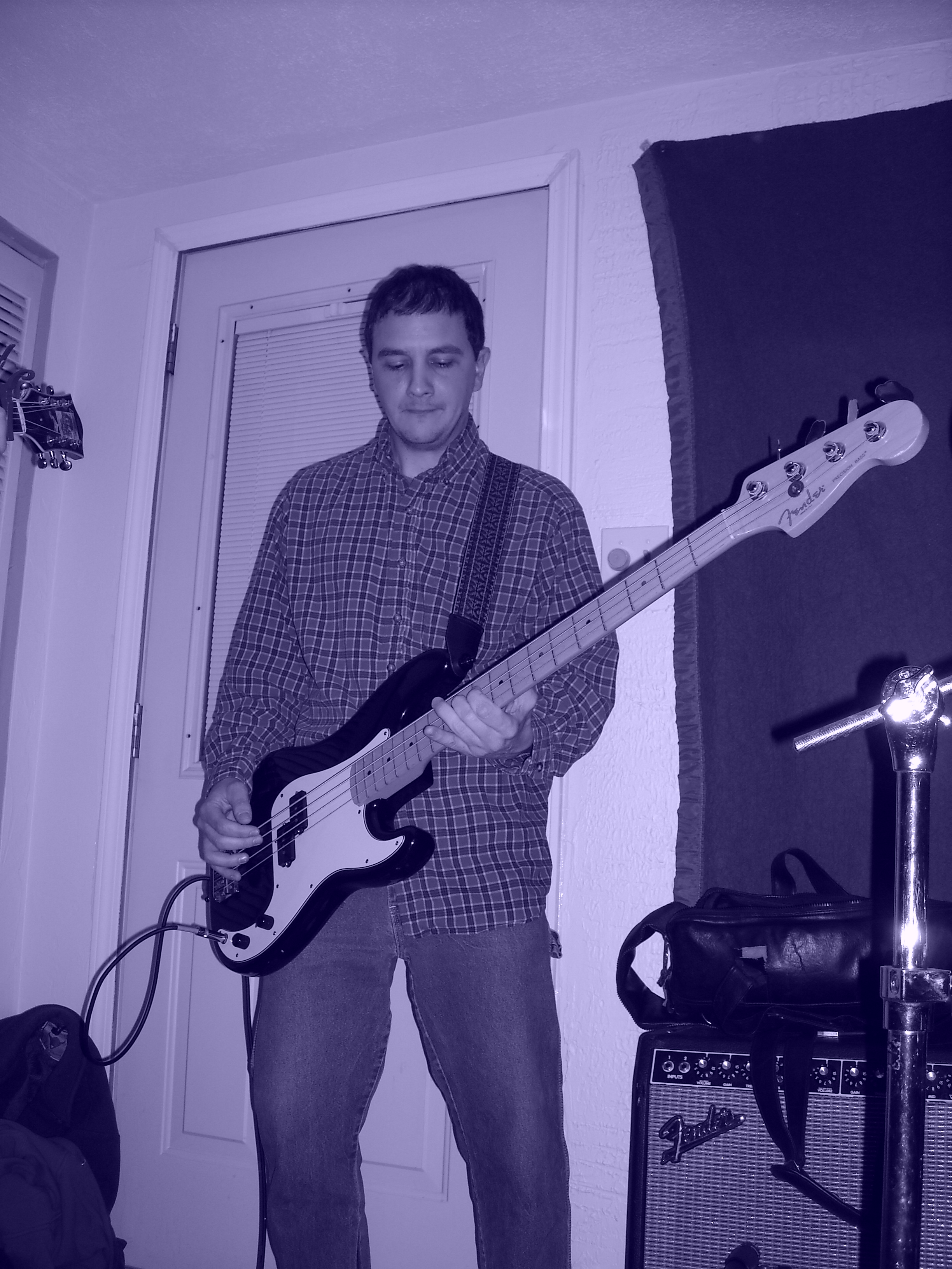 Rolland Geiroes with Them Damn Kids during show in Seven Sided Studios, Chicago, Il